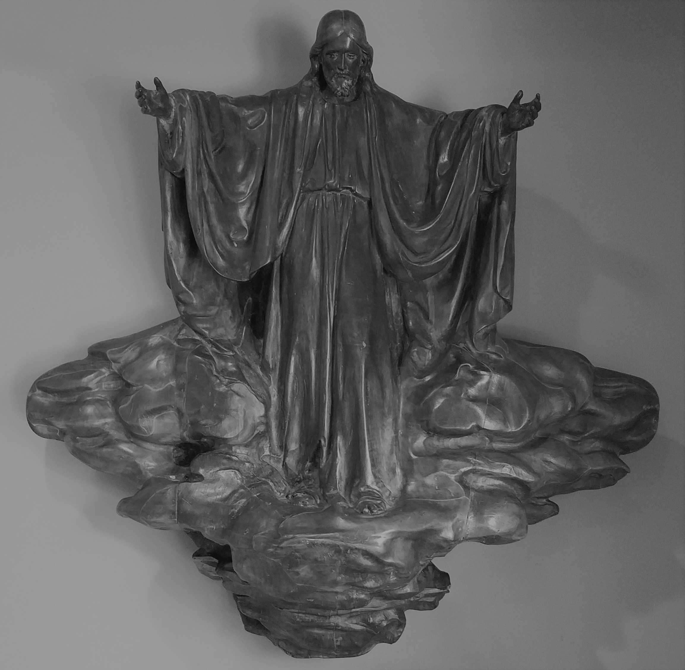 A carved image of the "Christus Ascending" in maple wood, 1931